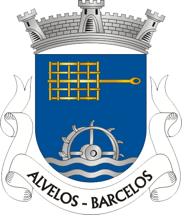 Crest of Alvelos, a parish in the municipality of Barcelos (Portugal)